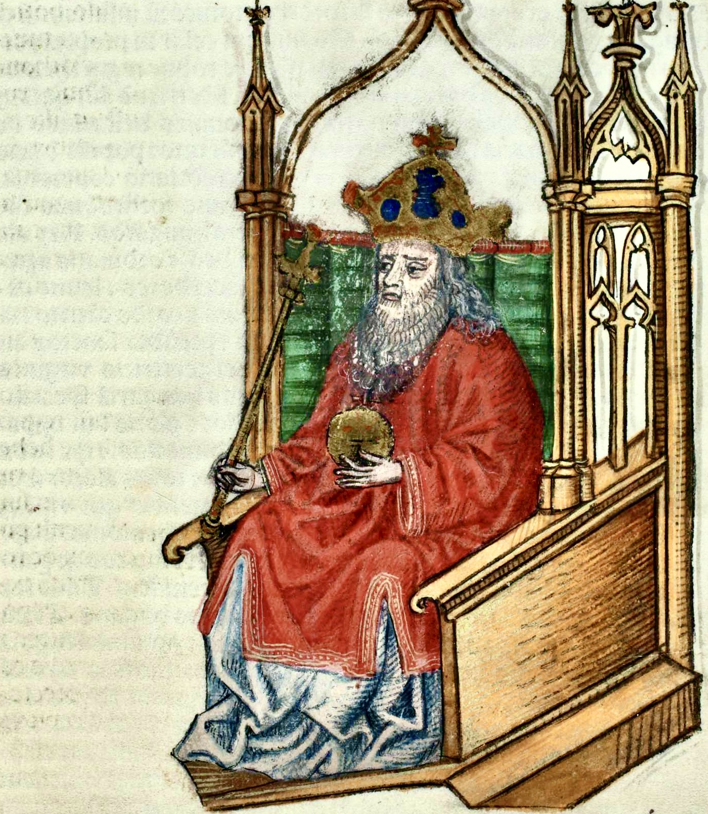 Géza II of Hungary